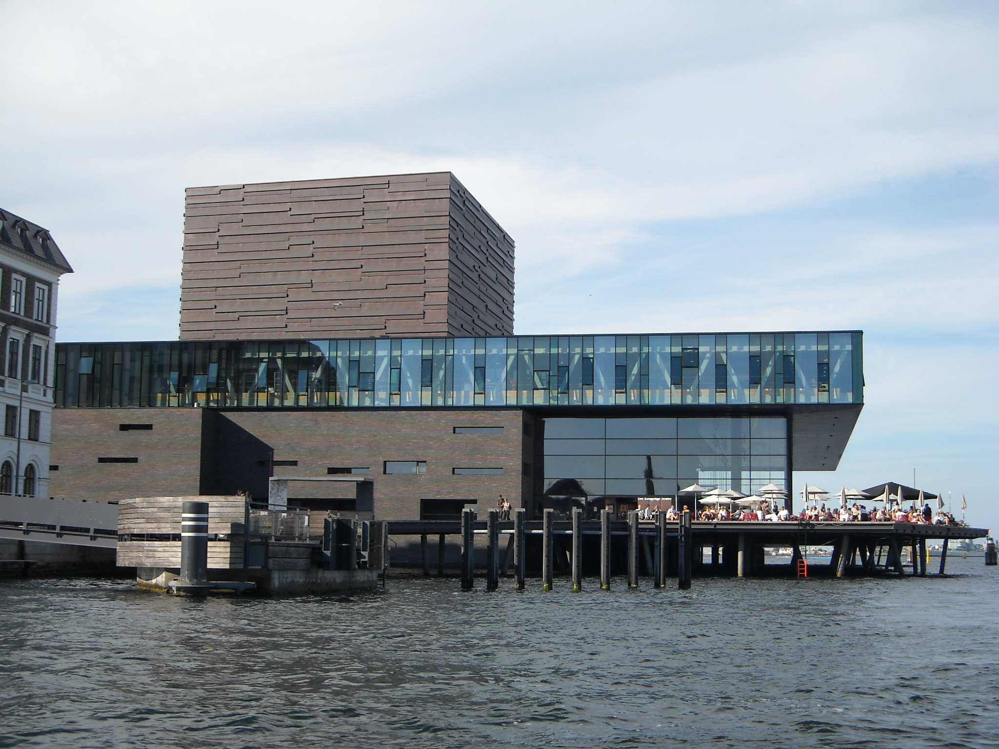 The Royal Theatre Playhouse in Copenhagen, Denmark, photographed from the harbour.